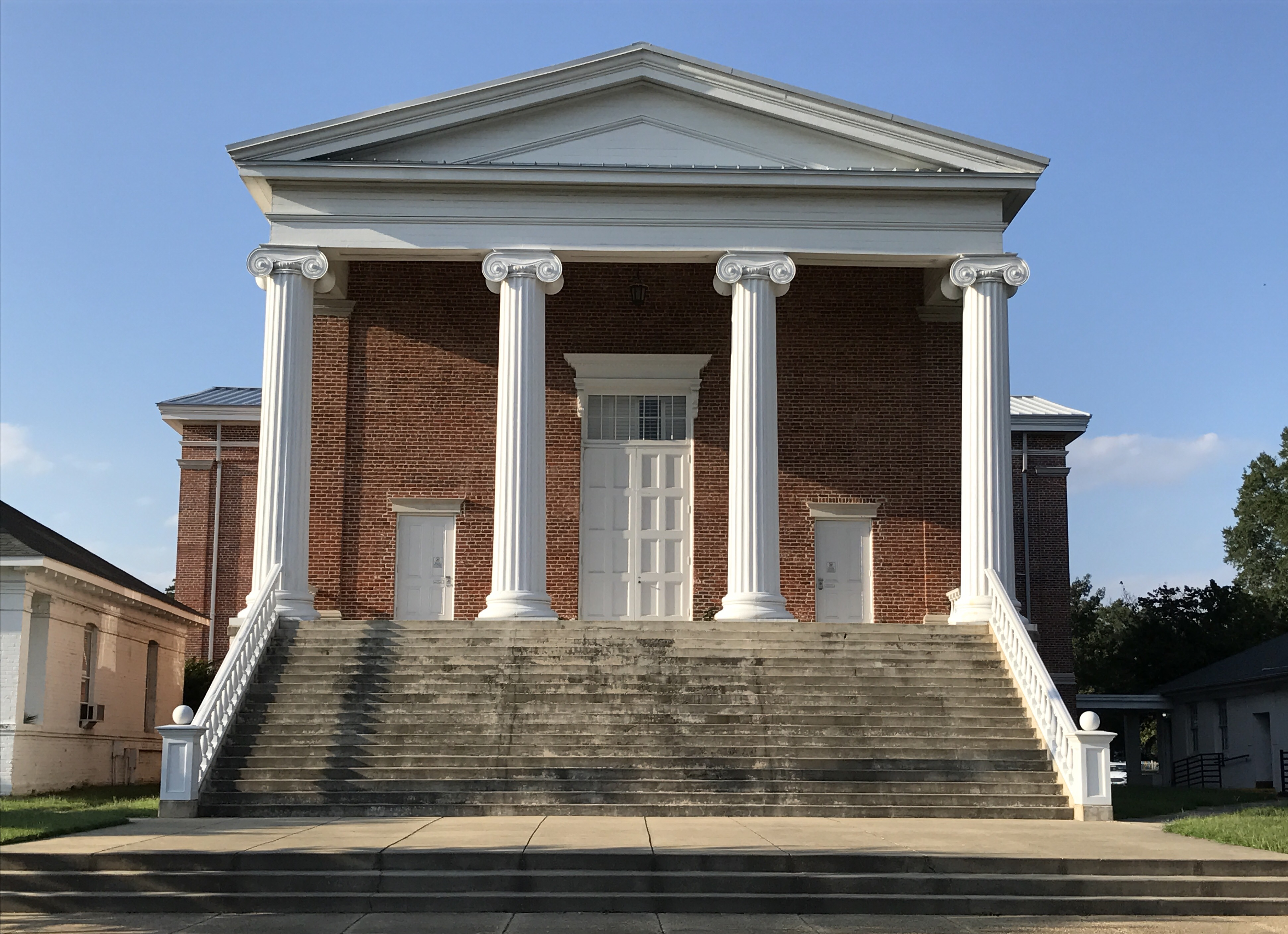 Front of courthouse